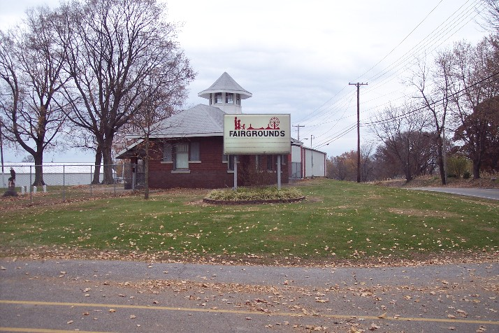 Taken by Kurt Weber (User:Kmweber) on November 5, 2006